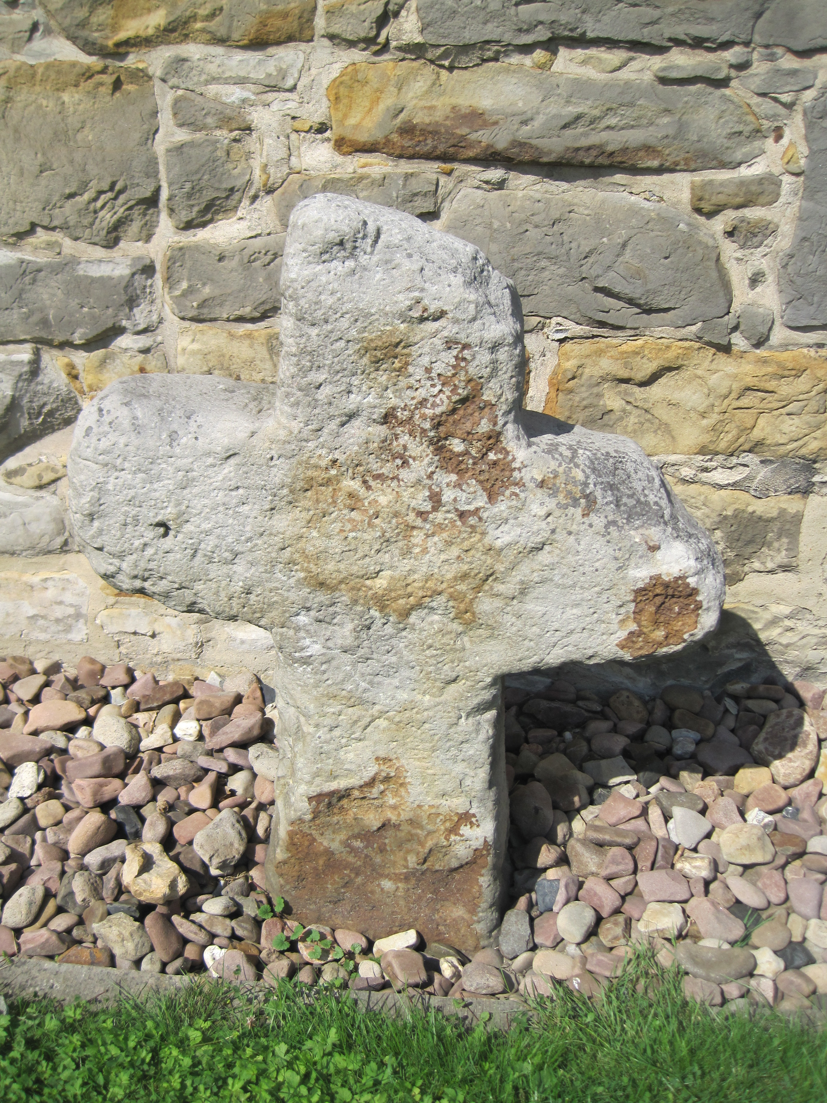 Cross at St Johannis Chapel, Stadthagen, Germany check usage